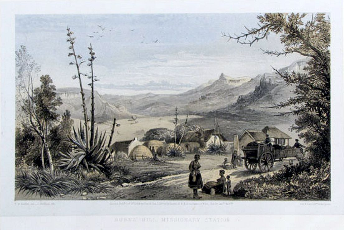 Burns' Hill or Burnshill Mission Station by Thomas William Bowler (1812-1869) . The Burnshill Mission, established in 1830, was named after John Burns, one of the founders of the Glasgow Missionary Society